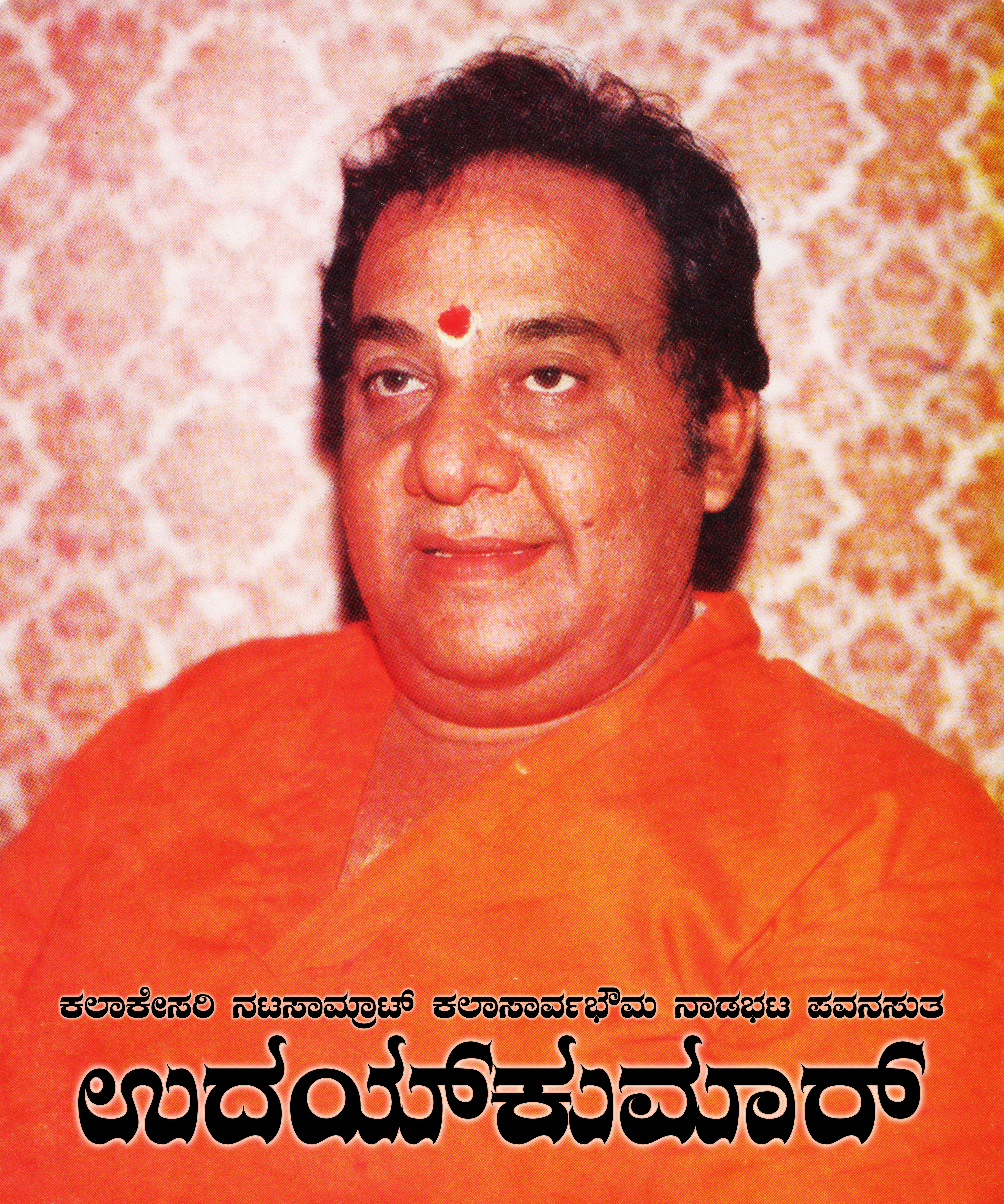 A rare photograph of Kalakesari UdayKumar - An Yesteryear Superstar South Indian Film industry.